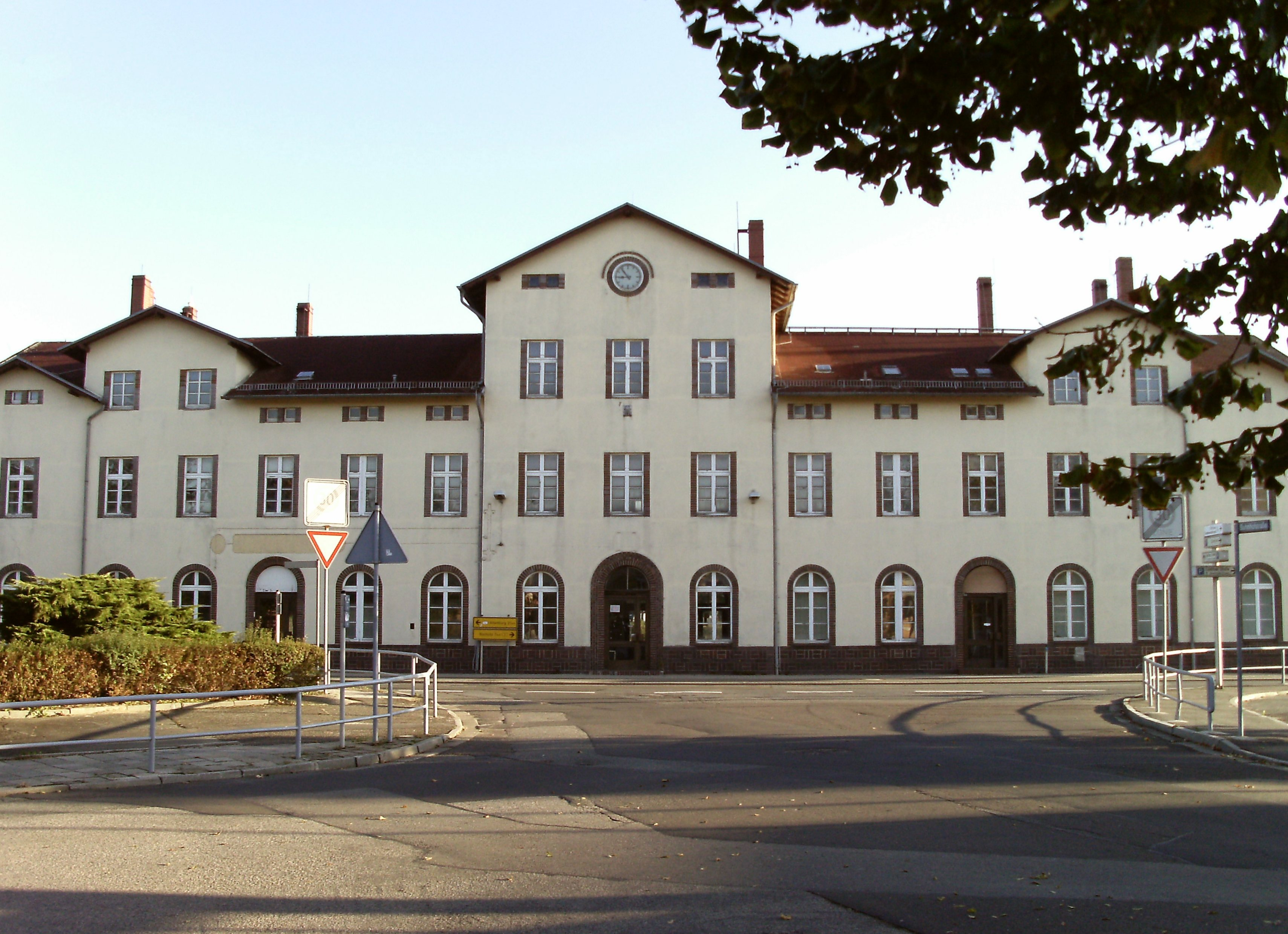 Geithain railway station (Leipzig district, Saxony)